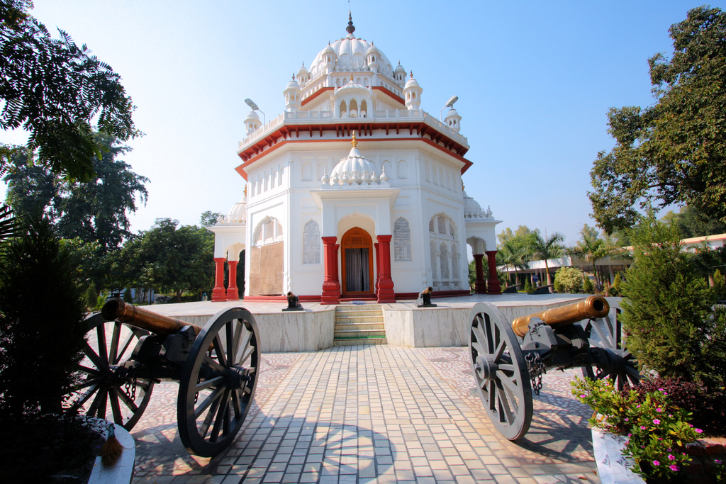 The Saragarhi Memorial Gurudwara was constructed to honour the 21 Sikh soldiers who belonged to the 36th Sikh Regiment. The soldiers died while defending the Fort Saragarhi on 12th September 1897 in Wazirstan. It was constructed by the Army Authorities. The Gurudwara was inaugurated by the Lieutenant Governor of Punjab, Sir Charles Pevz in 1904. Every year, on 12th September, two separate meetings are held here, a religious assemblage in the morning and a reunion of ex-servicemen in the evening.